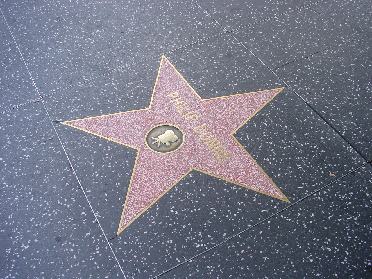 Star on Hollywood Walk of Fame for screenwriter Philip Dunne, located in front of 6725 Hollywood Blvd.